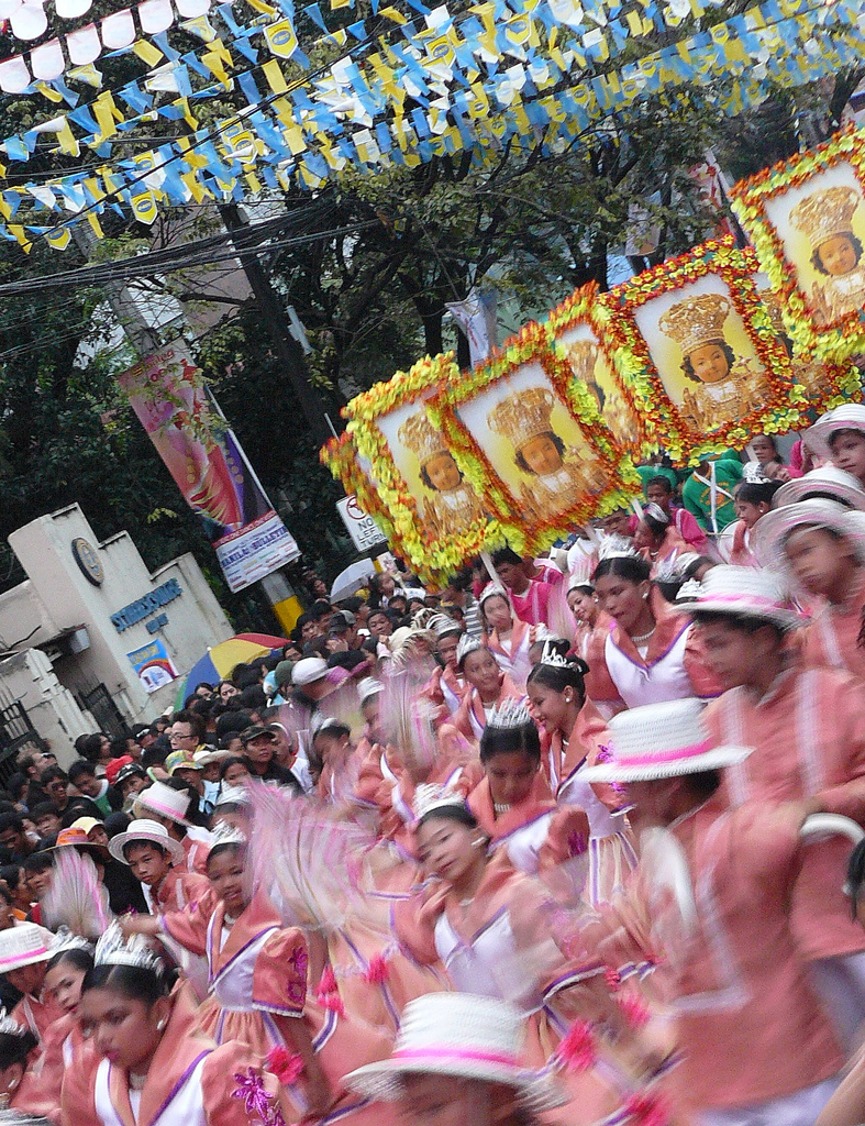 A procession during Sinulog